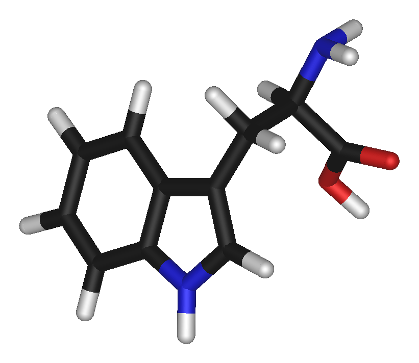 L-tryptophan 3-D Sticks Rendering